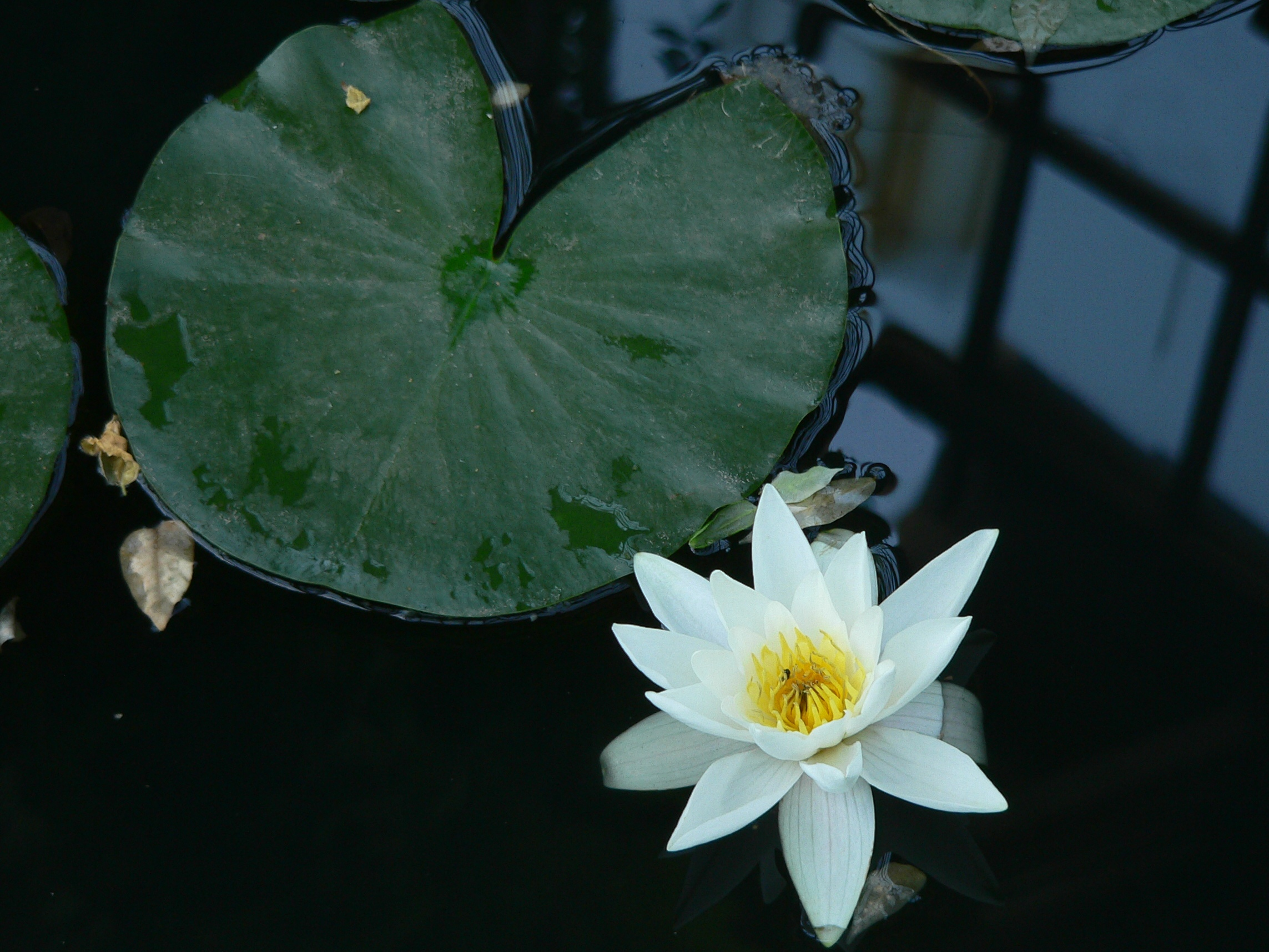 White water lily